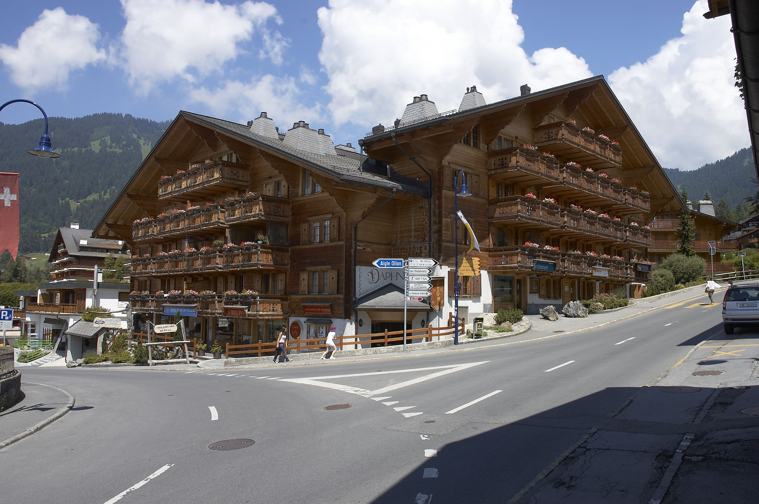 Villars-sur-Ollon